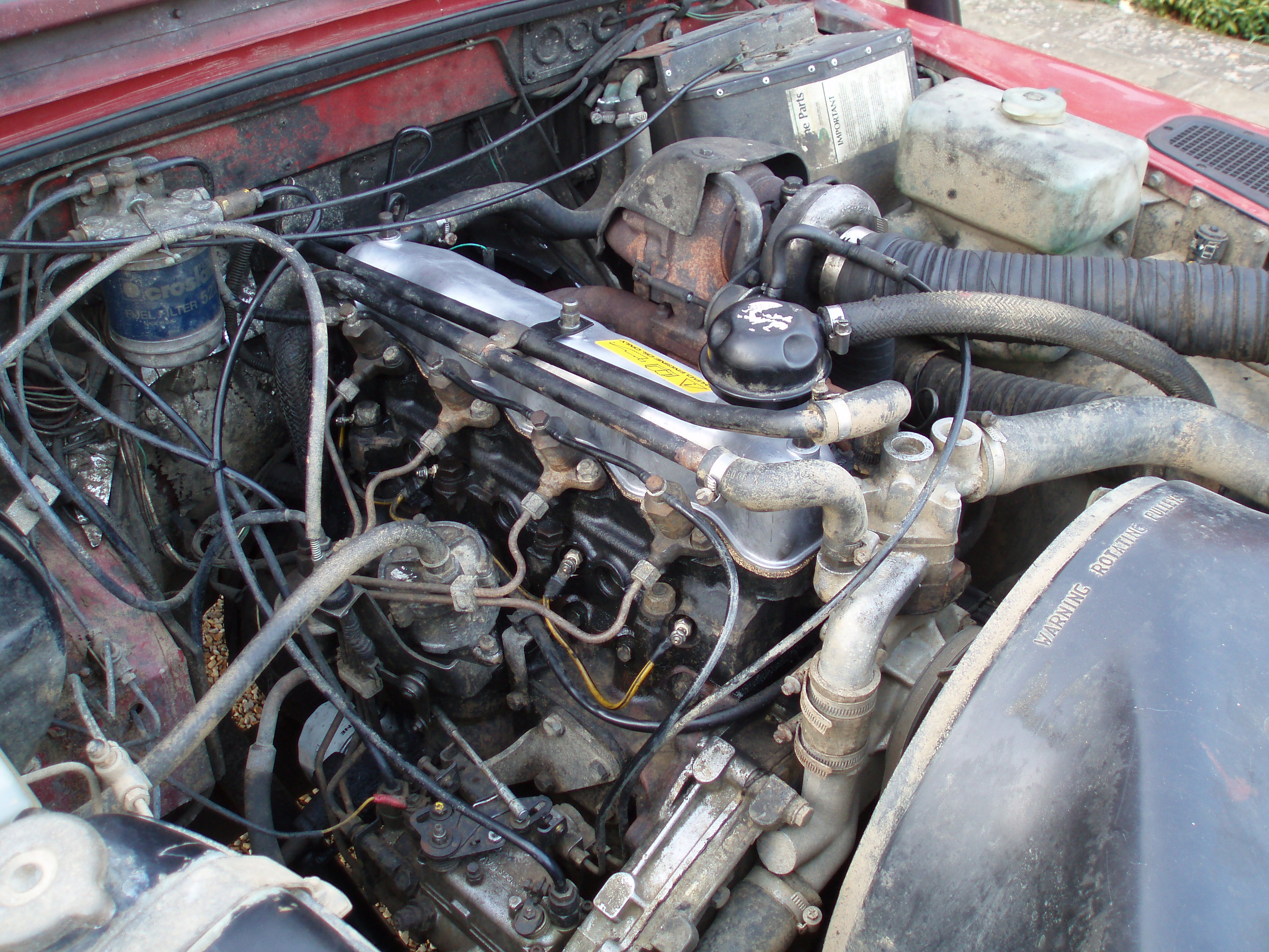 Photograph of a Land Rover Diesel Turbo engine in a 1990 Land Rover Ninety vehicle. Photo taken by myself of the engine in my own vehicle.